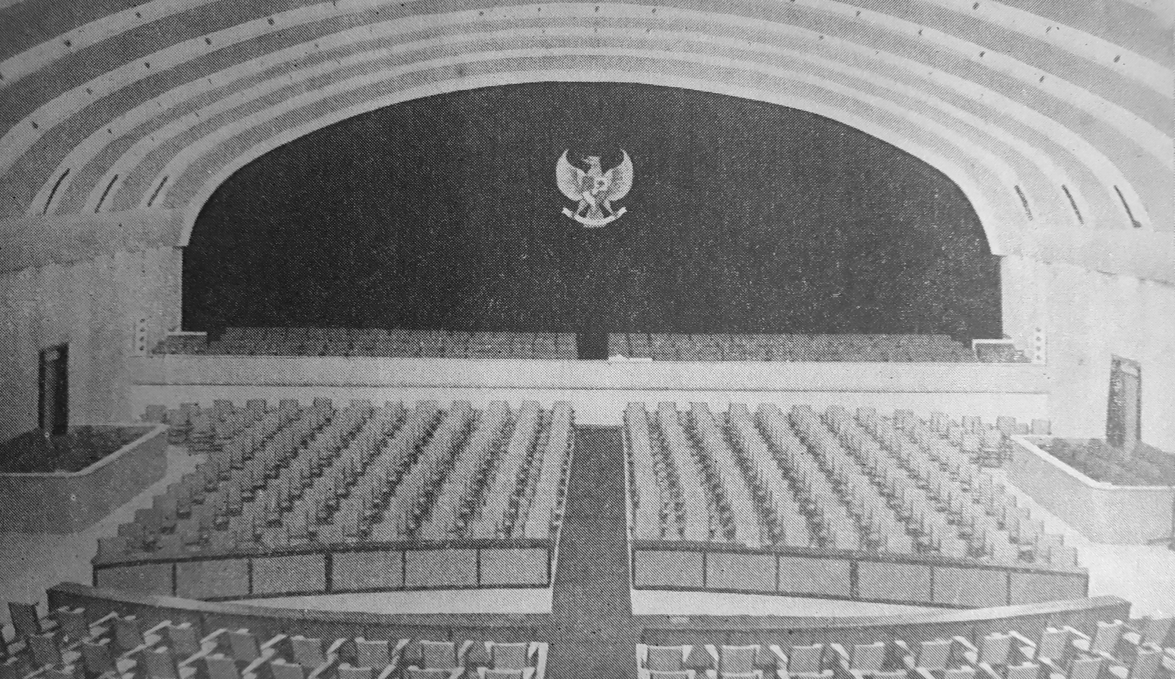 The Plenary Hall of the Indonesian Constitutional Assembly, Bandung